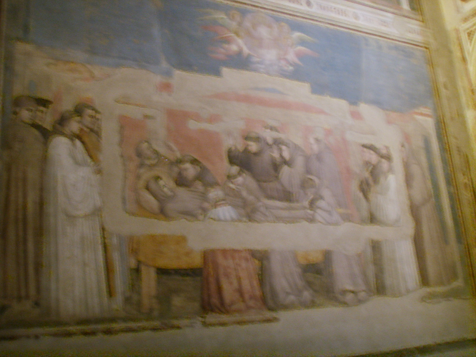 Santa Croce church, frescoes by Giotto, inside, in Florence, Italy